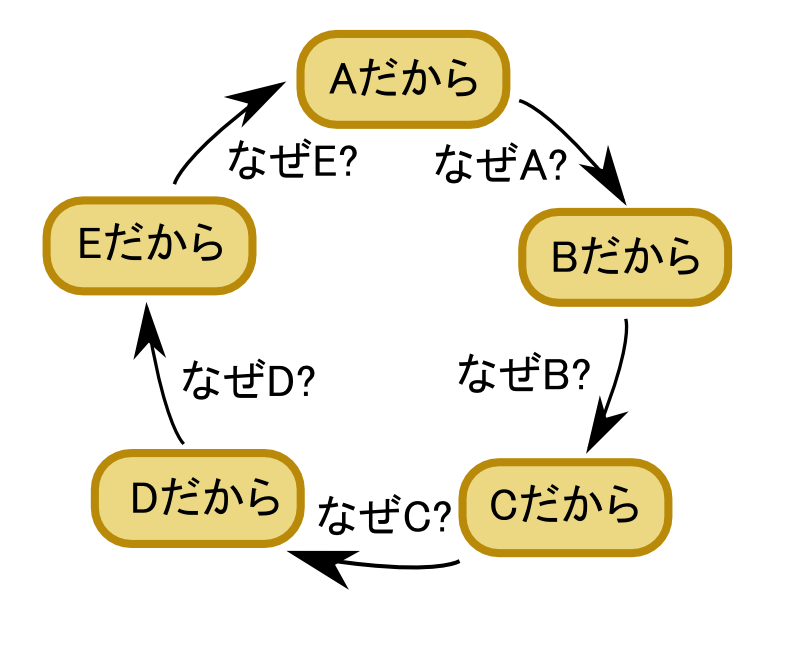 diagram represent Circular argument. in Japanese. I made diagram based on Toshihiko Miura "Ronrigaku ga wakaru jiten(Introduction to Logic)" pp.220-221 ISBN 4534037104 by Inkscape